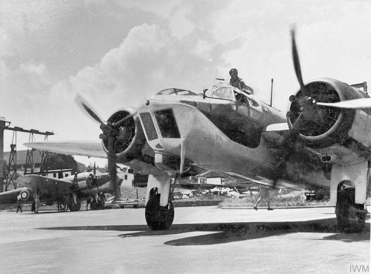 Bristol Blenheim Mark IVs taxying out for an air-test after assembly at RAF Tengah, Singapore, following their urgent shipment to the theatre.